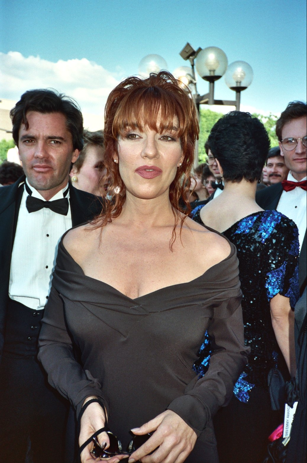 Katey Sagal at the 41st Primetime Emmy Awards, September 17, 1989. Original description by the photographer: Emmy Awards NOTE: Permission granted to copy, publish, broadcast or post any of my photos, but please credit "photo by Alan Light" if you can. Thanks. Scanned from the original 35MM film negative.